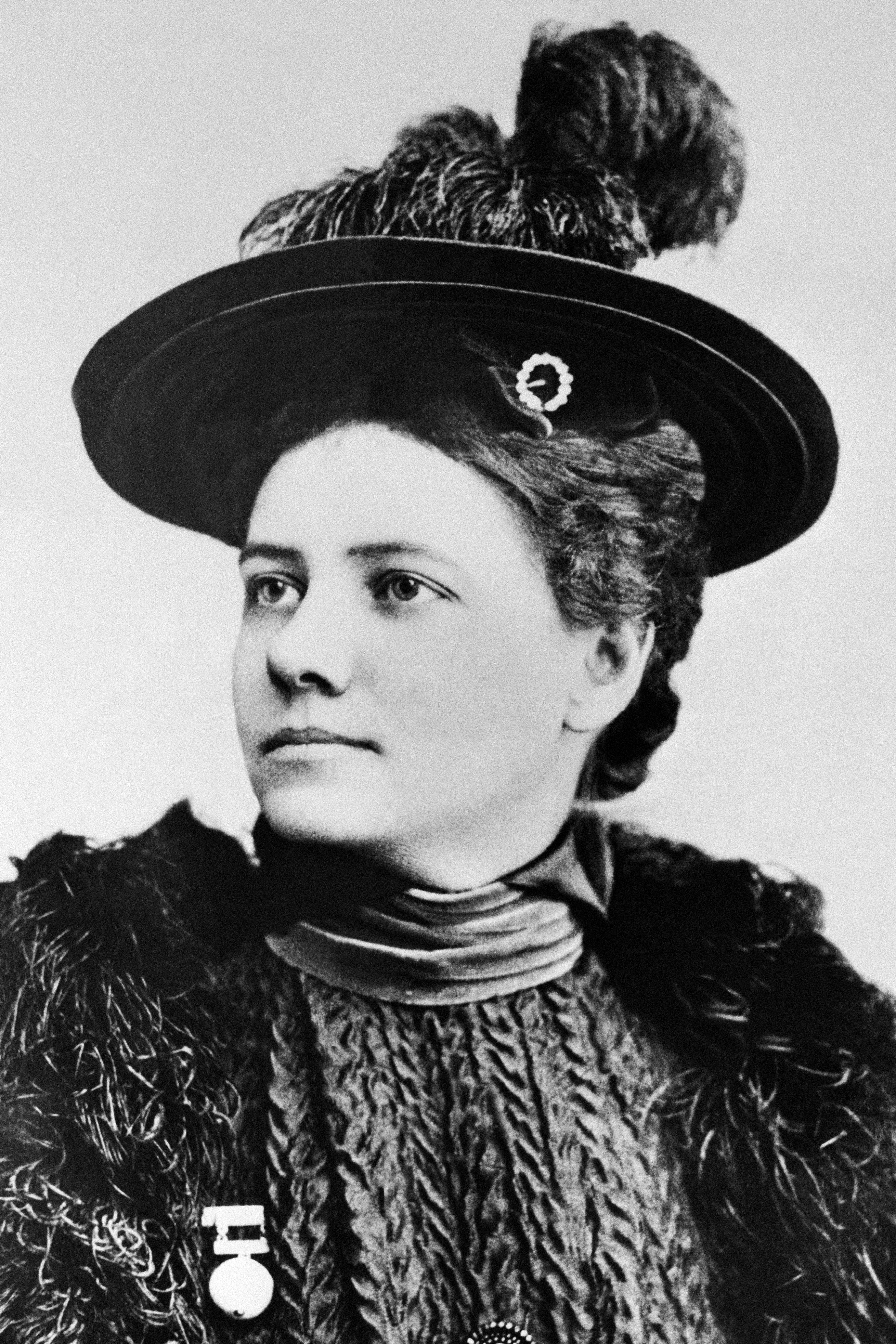 Formal portrait photo of Nellie Bly, facing left